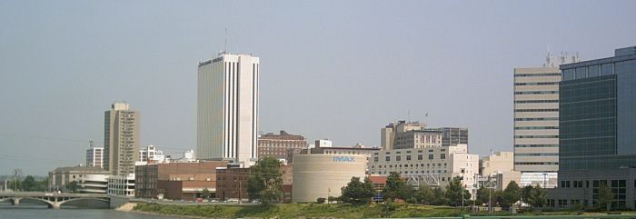 Skyline of Cedar Rapids, Iowa, looking northward from the 8th Avenue bridge. Photographed by User:Iowahwyman on June 17, 2007.